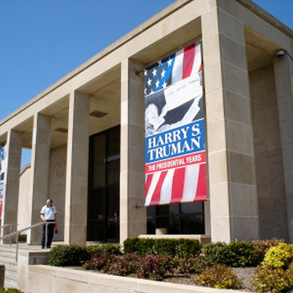 Author:Robert E. Nylund Source:Personal photos